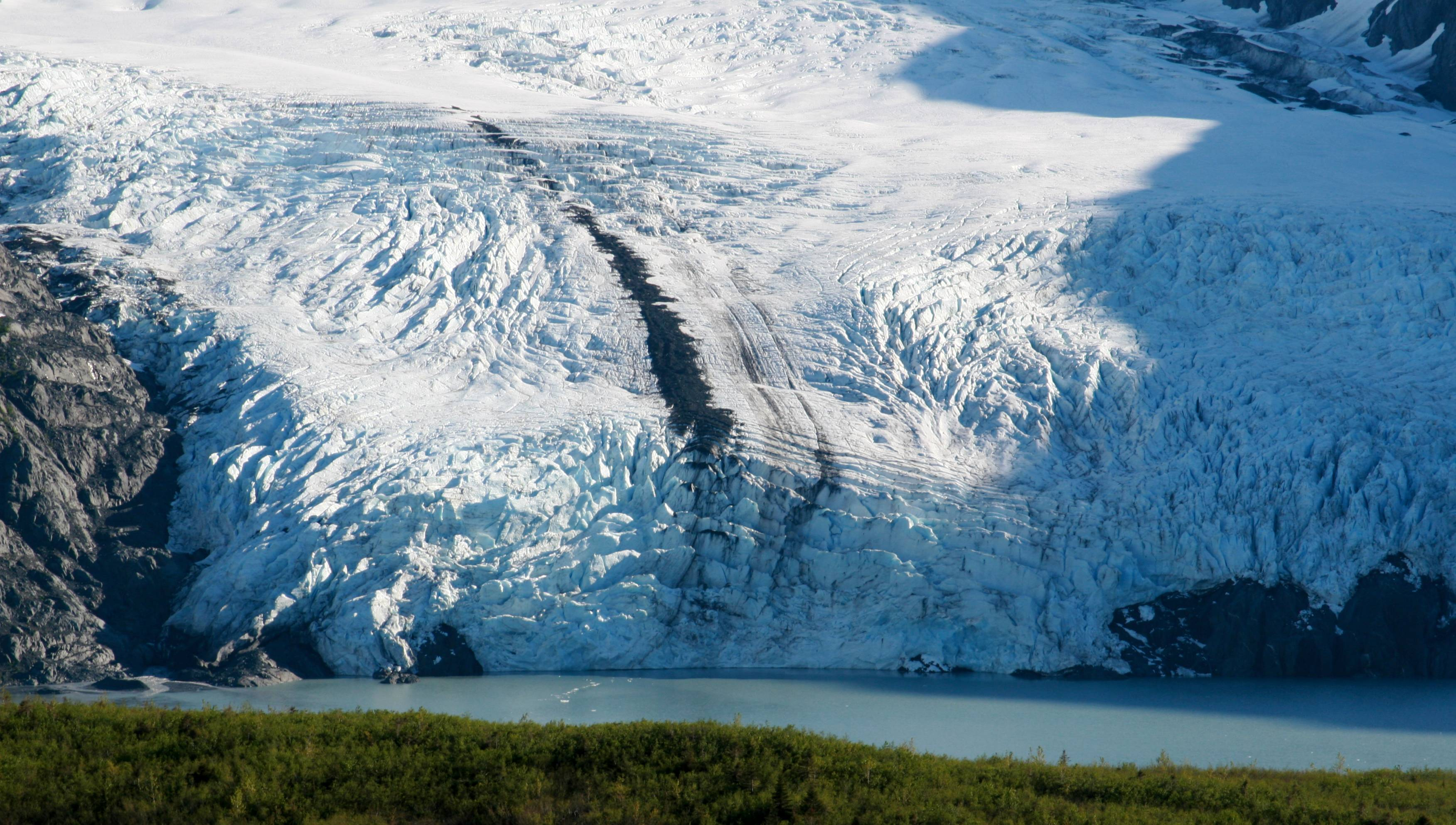 Taken while hiking the Portage Pass trail near Whittier, Alaska on probably the only clear day in the entire month of June 08.